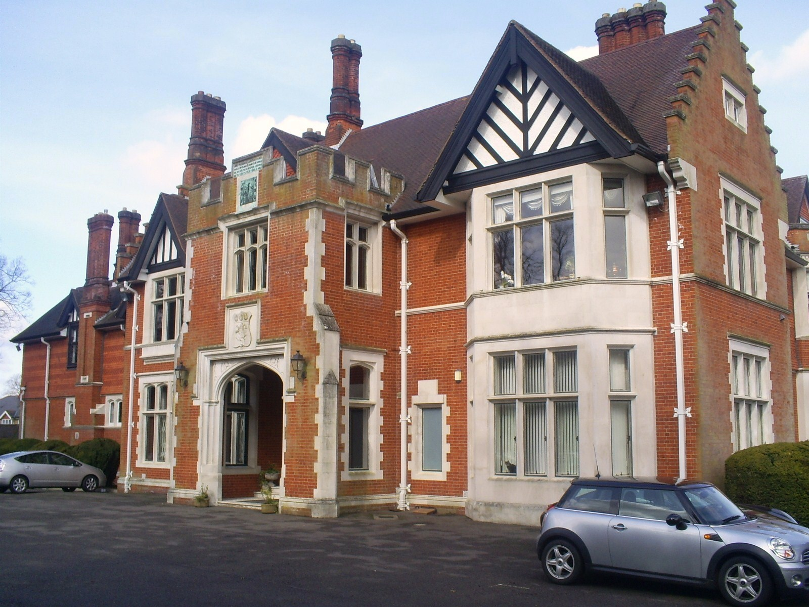 Chorleywood House A Regency mansion called Chorleywood House was built here in 1822 by John Barnes, replacing an earlier farm house. In 1892, the house was bought by Lady Ela Russell, a relative of the Duke of Bedford and she modified and enlarged the house. In June 1940, the mansion and land were bought by the Chorleywood Urban District Council, together with Hertfordshire County Council and London County Council and designated a public open space. During the war, the mansion housed evacuees from London. Chorleywood UDC then adopted the house for their offices and the Public Library was housed here. Tenants lived in flats in the upper storeys. When Chorleywood UDC devolved to became Three Rivers DC in 1974 the mansion was entirely converted into flats which are now leased privately. The grounds remain a public open space.